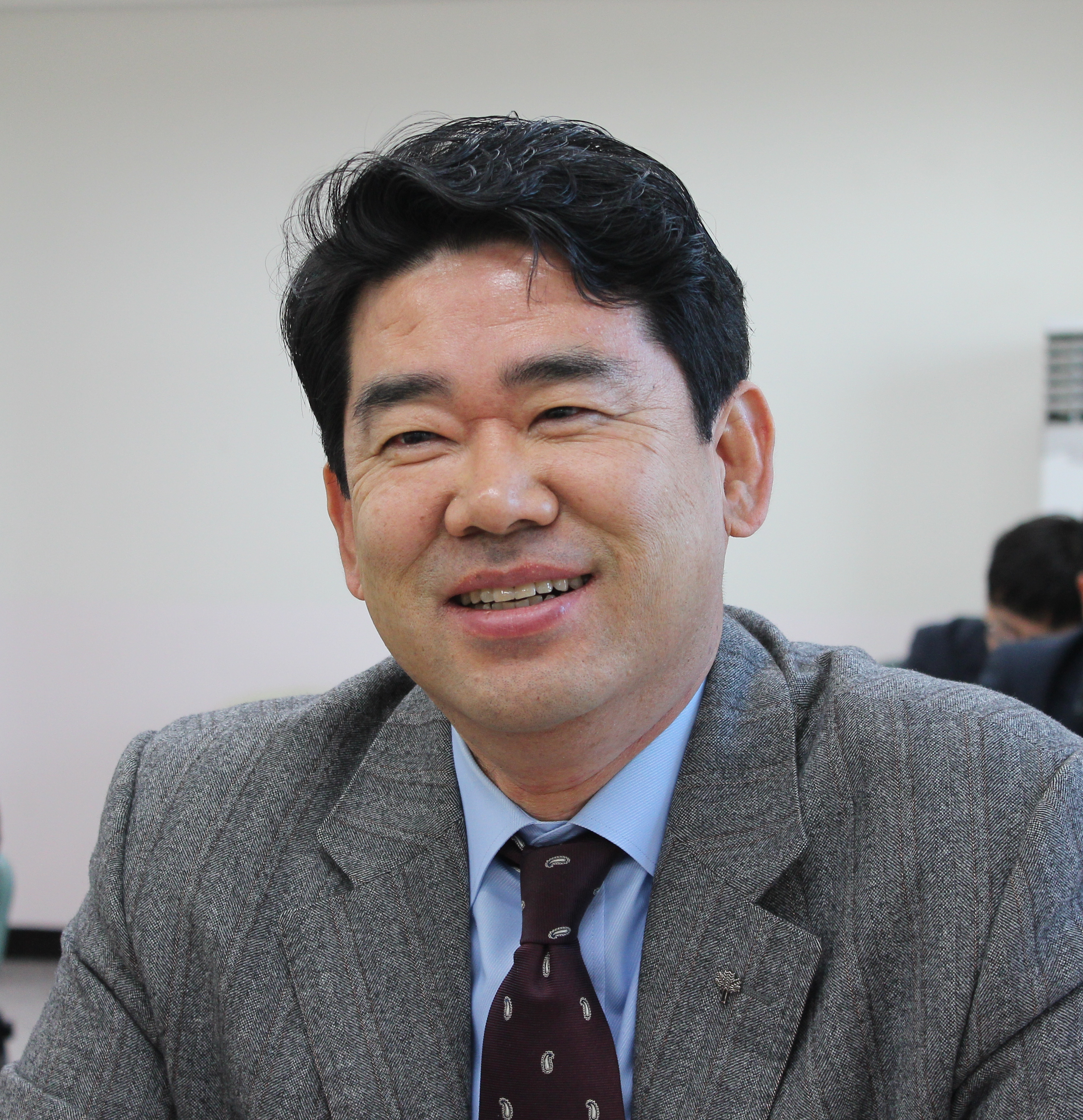 professor MoonChul Shin smiling in the Saeeden Church 18th. November in 2017